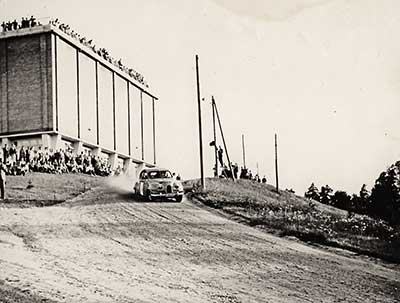 Carl-Otto Bremer driving Saab in Harju stage in Rally Finland 1957.jpg